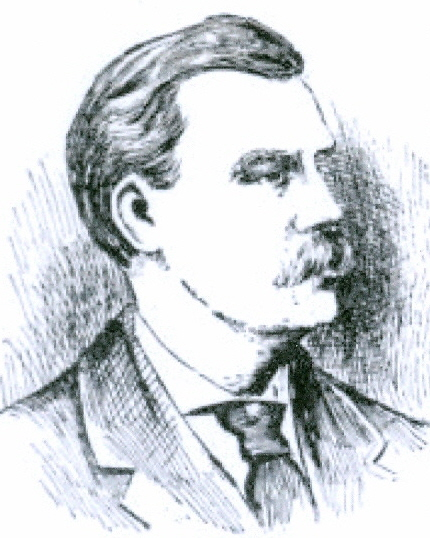 Drawing of Charles E. Courtney, head rowing coach of Cornell c. 1897.